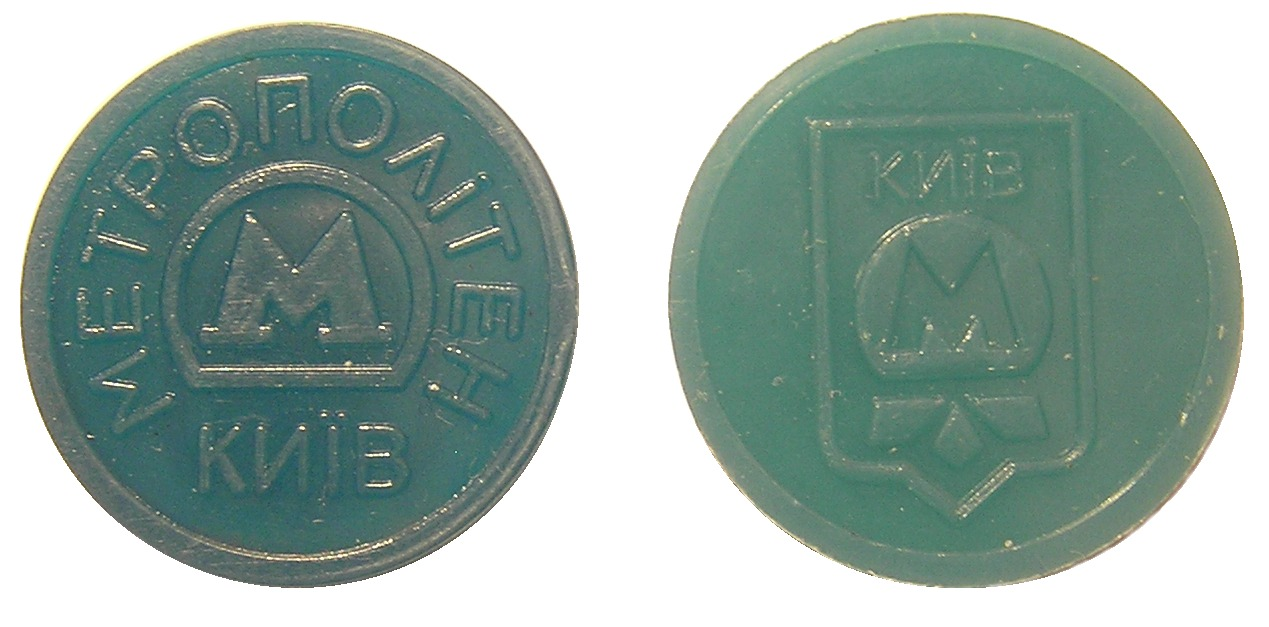 Kiev subway tokens, 2007